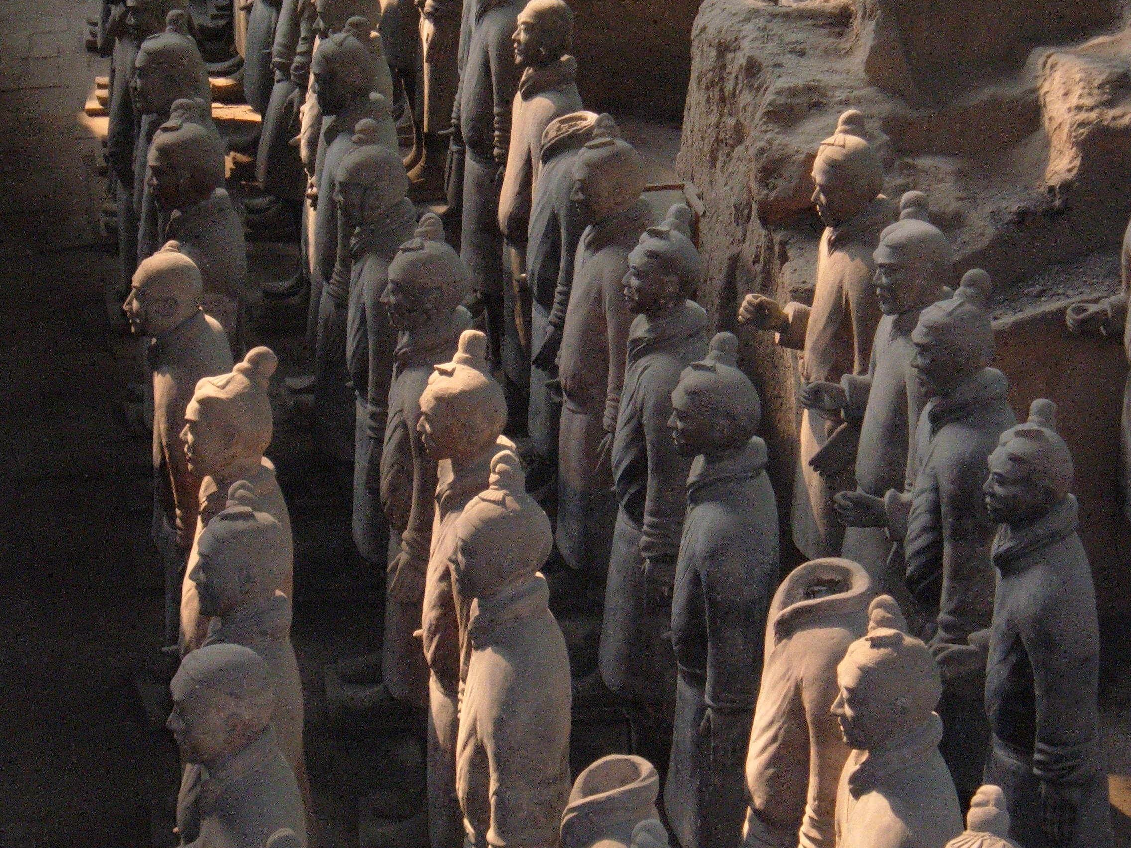 Detail of the front rank of the Terracotta Army in Pit 1 at the Mausoleum of the First Qin Emperor near Xi'an, PRC.